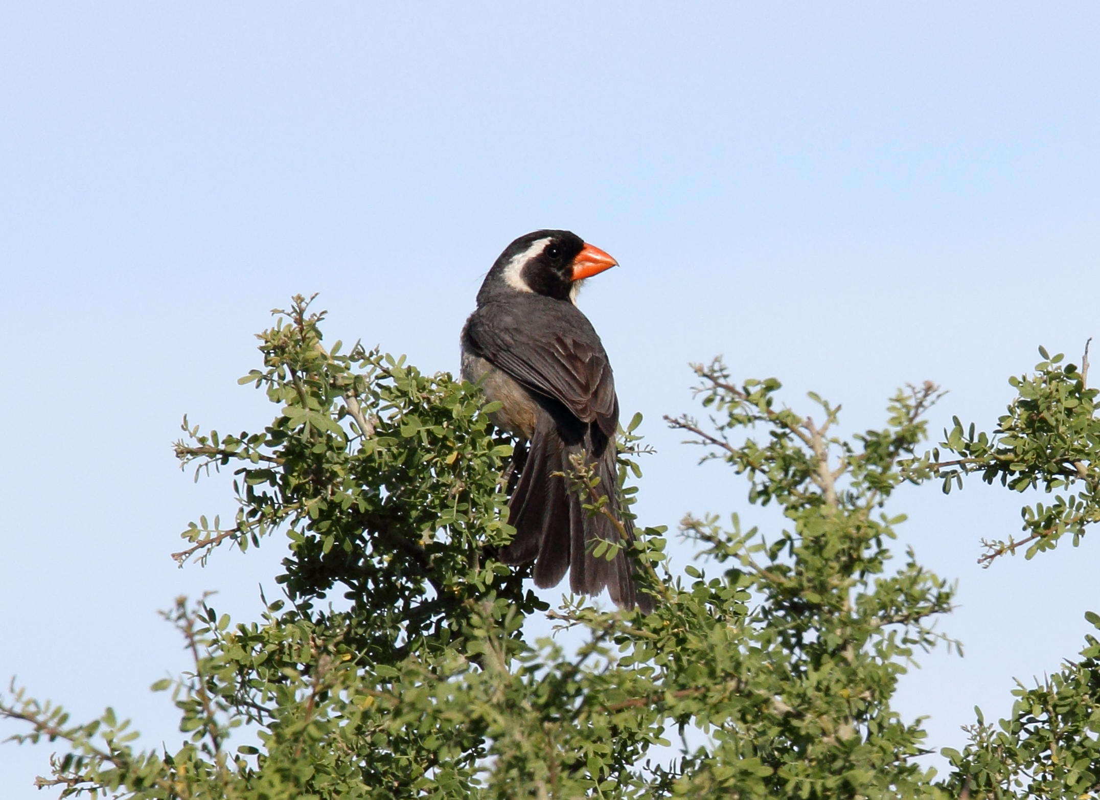 Golden-billed Saltator (Saltator aurantiirostris)